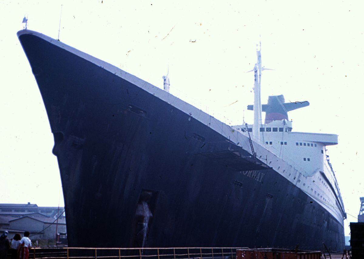 The liner Norway in drydock at Bremerhaven during its conversion in cruise ship in 1979.